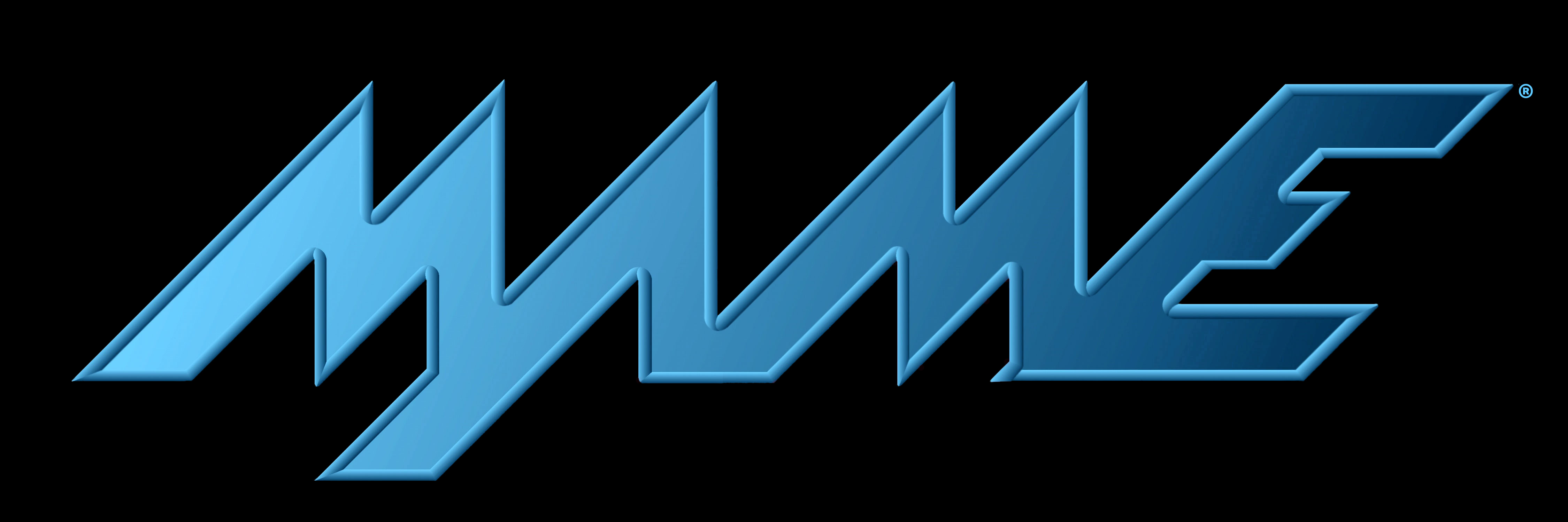 MAME logo